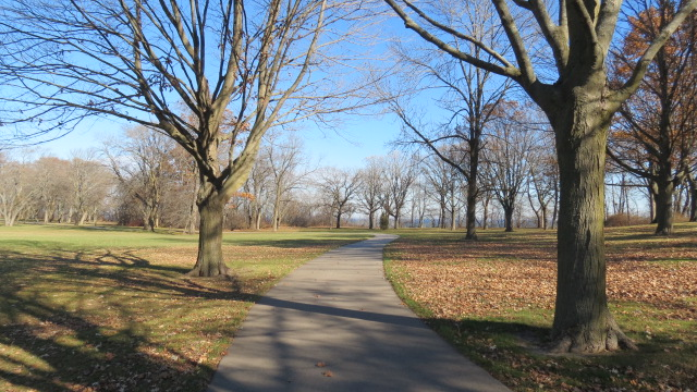 A section of the Oak Leaf Trail running through Sheridan Park.